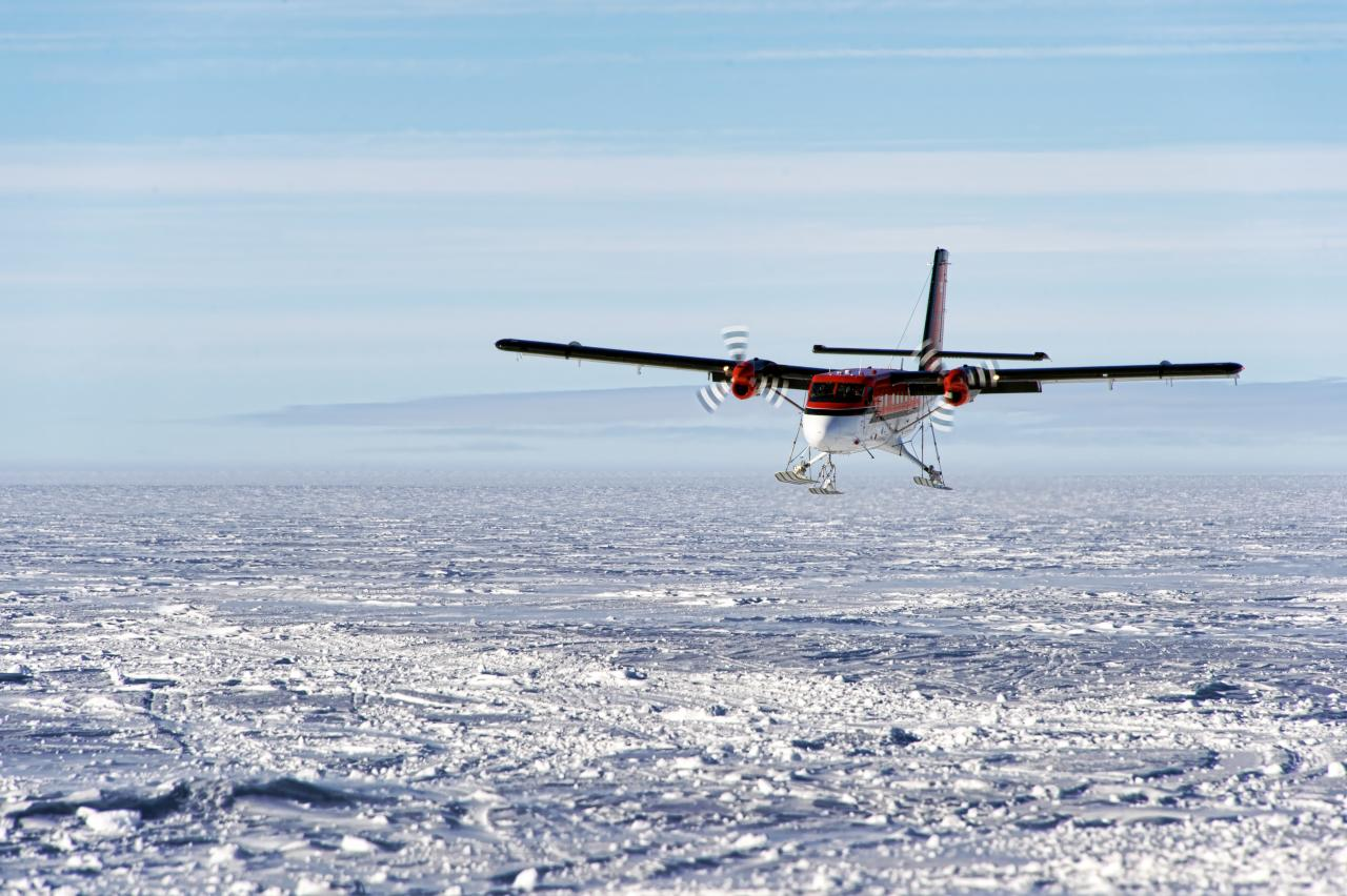 A De Havilland Canada DHC-6 Twin Otter of Kenn Borek Air flying over Antarctica